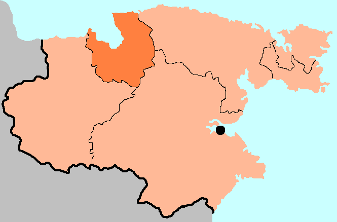 Location of the Chaunsky District (rayon) within the Russian autonomous district (okrug) Chukotka. Grey dot indicates the autonomous district's capital Anadyr